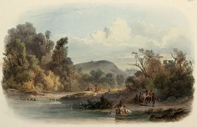 "Washinga Sahba's Grave on Blackbird's Hills". Print by Weber after Karl Bodmer; cropped to remove white space and captions.